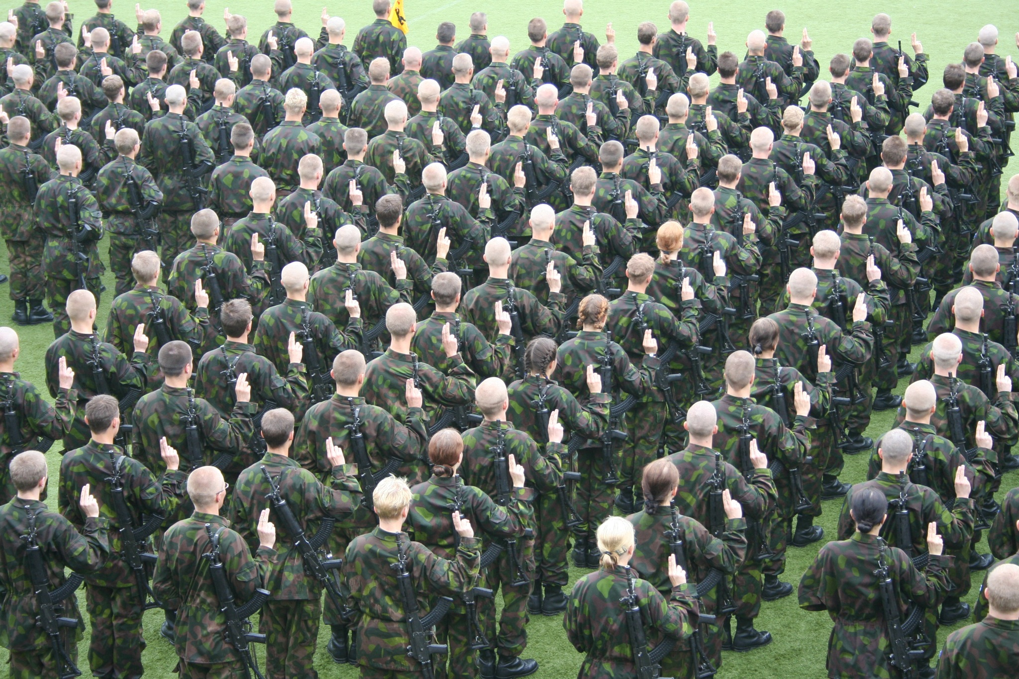 Finnish conscripts giving their military oath. They are wearing camouflage uniforms m/91 and carrying Sako m/95 7.62x39 assault rifle (Kalashnikov variant). Note that the conscript NCOs on the far left are not raising their hands as they have sworn the oath much earlier during their service.